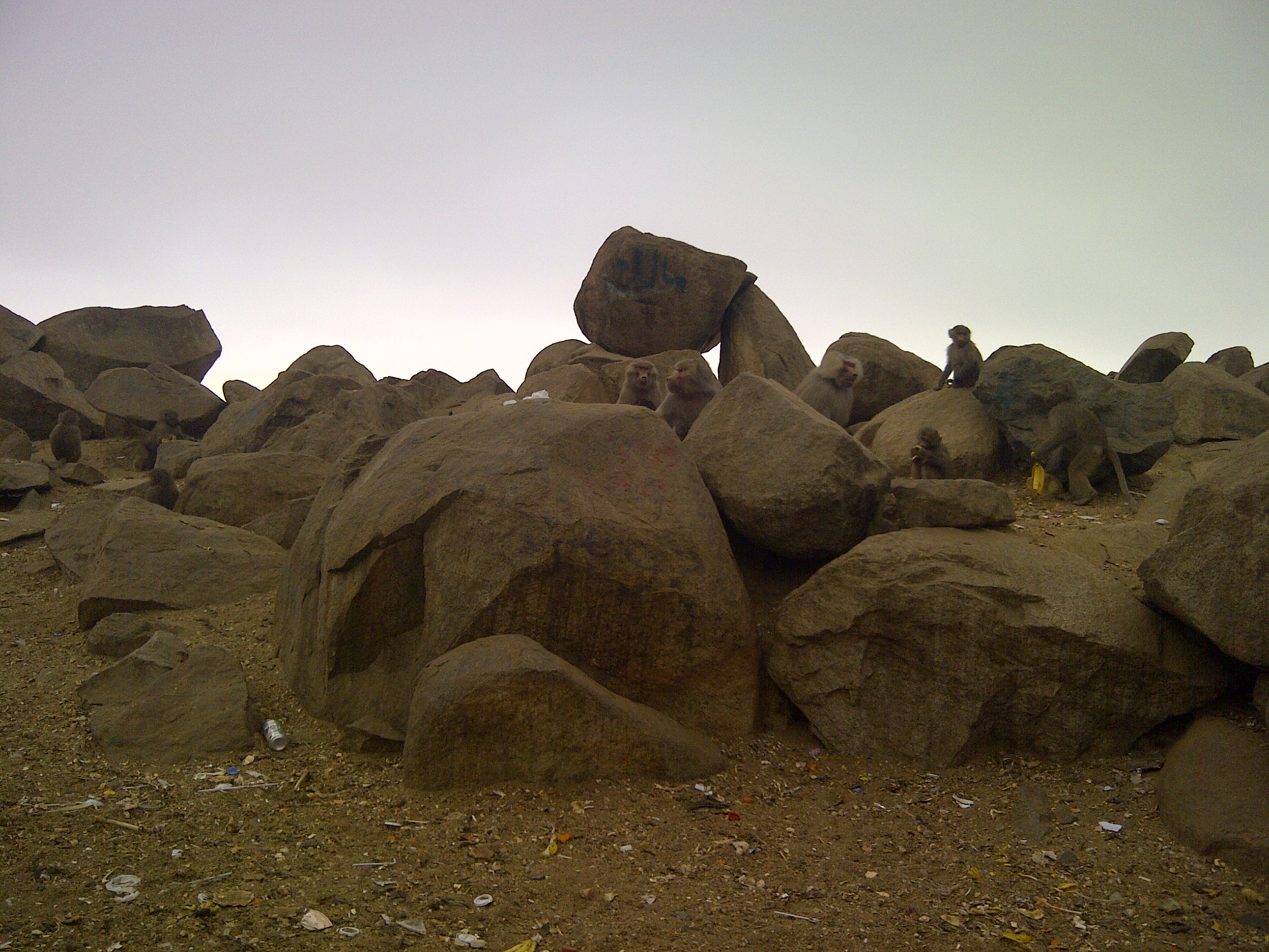 Al Hada Wildlife